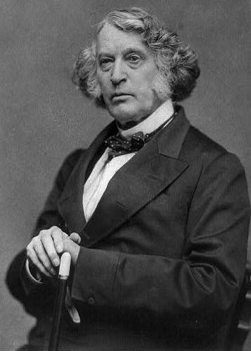 Charles Sumner, 1811-1874